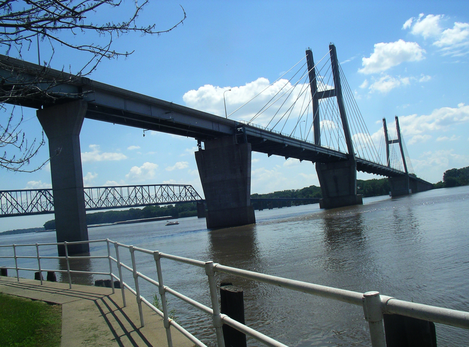 The Quincy Memorial Bridge (U.S. Route 24 eastbound, background) and the new Quincy Bayview Bridge (U.S. Route 24 westbound, foreground) over the Mississippi River at Quincy, Illinois (foreground)/West Quincy, Missouri (background)